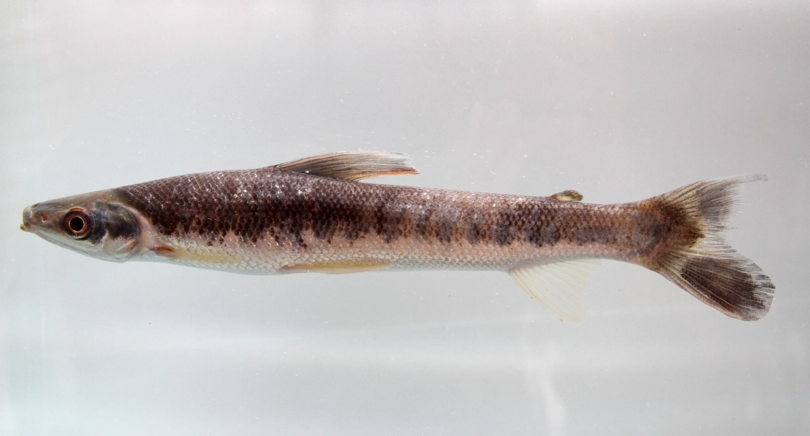 Rhytiodus argenteofuscus